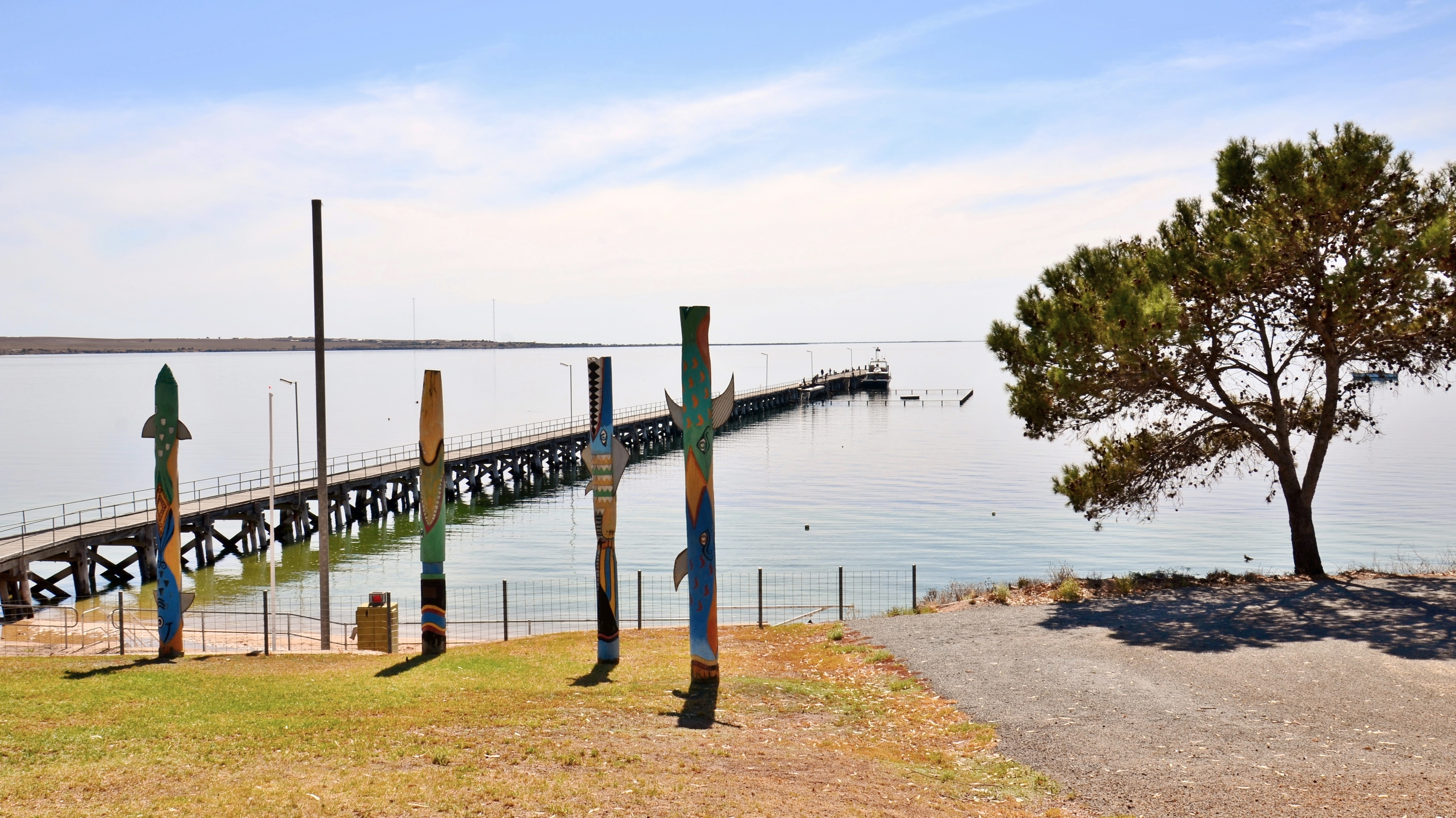 View of the Streaky Bay Jetty, Streaky Bay, South Australia